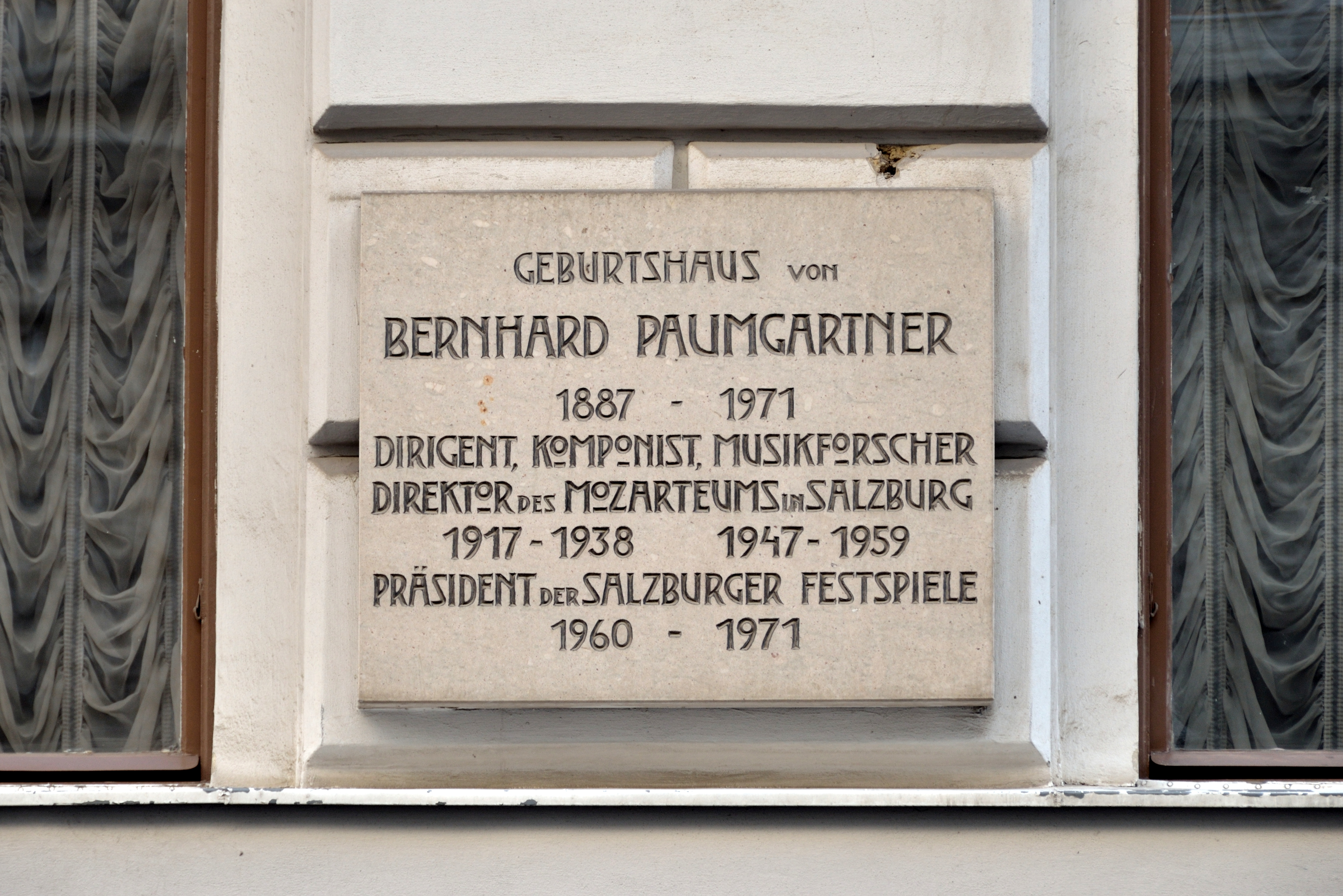 Memorial plaque for the musician Bernhard Paumgartner at Frankenberggasse 7 in Wieden, Vienna. The building was Paumgartner's birthplace.